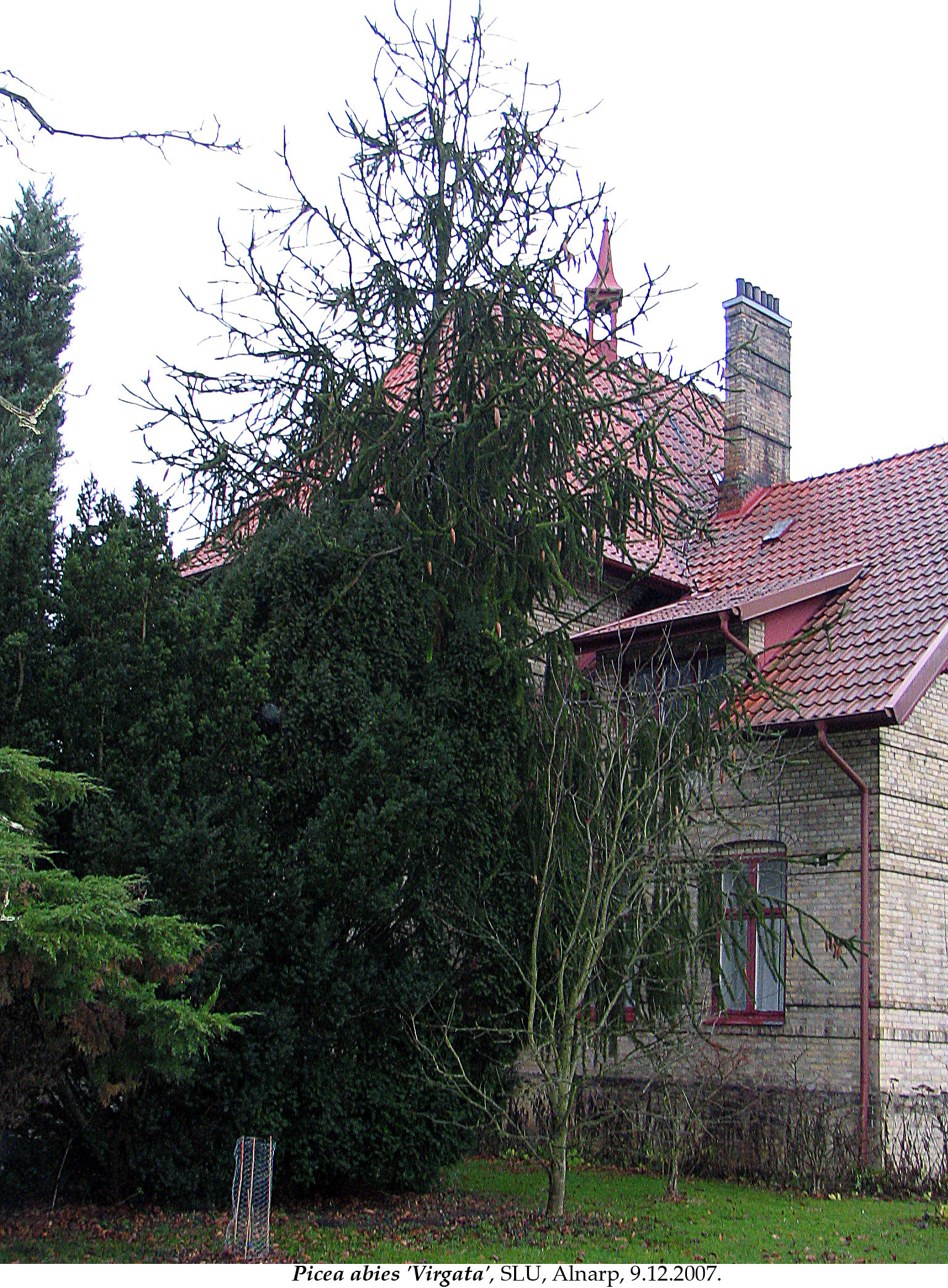 Picea abies 'Virgata'